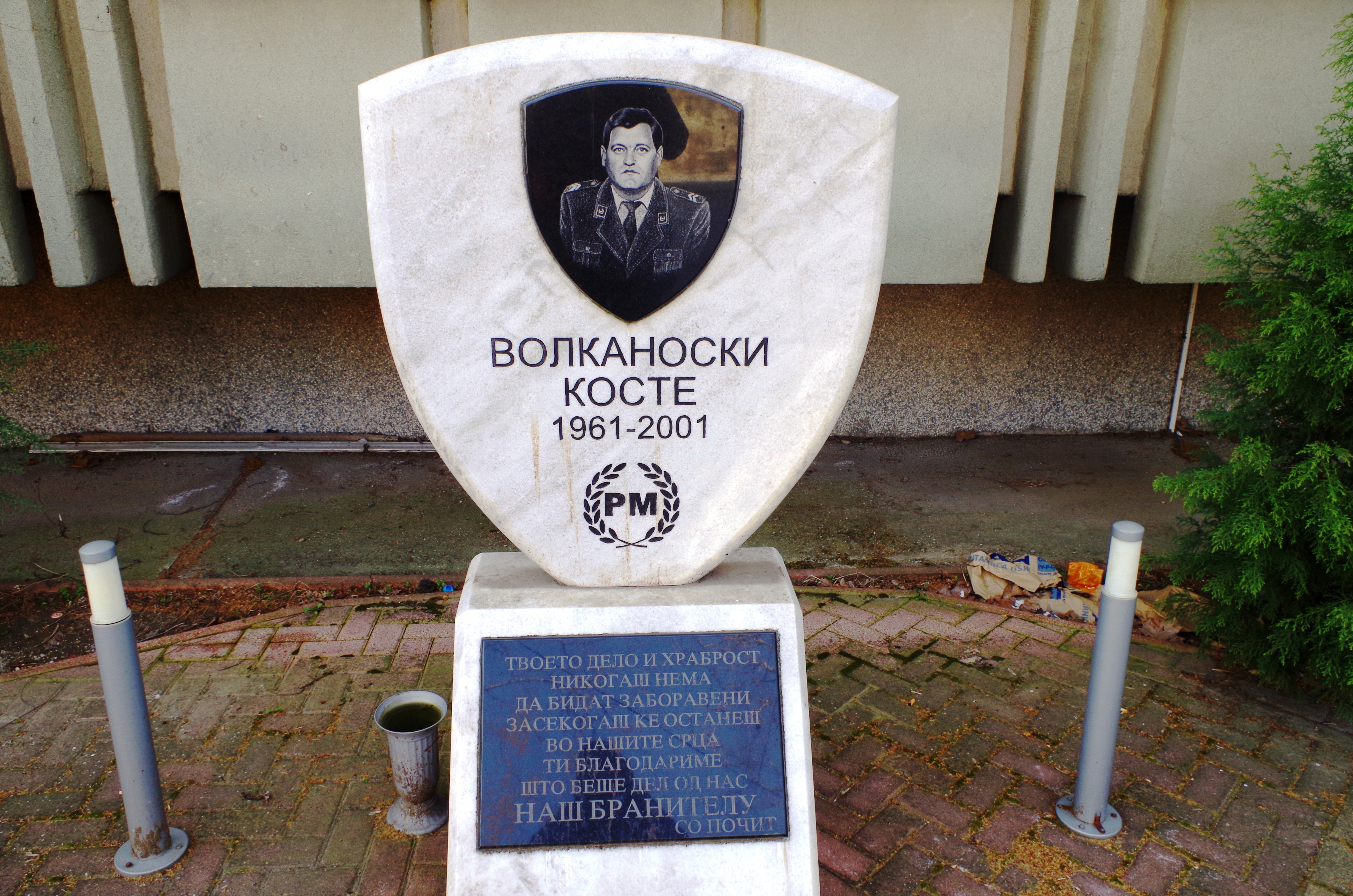 Bust of the Macedonian soldier Koste Volkanoski in Negotino